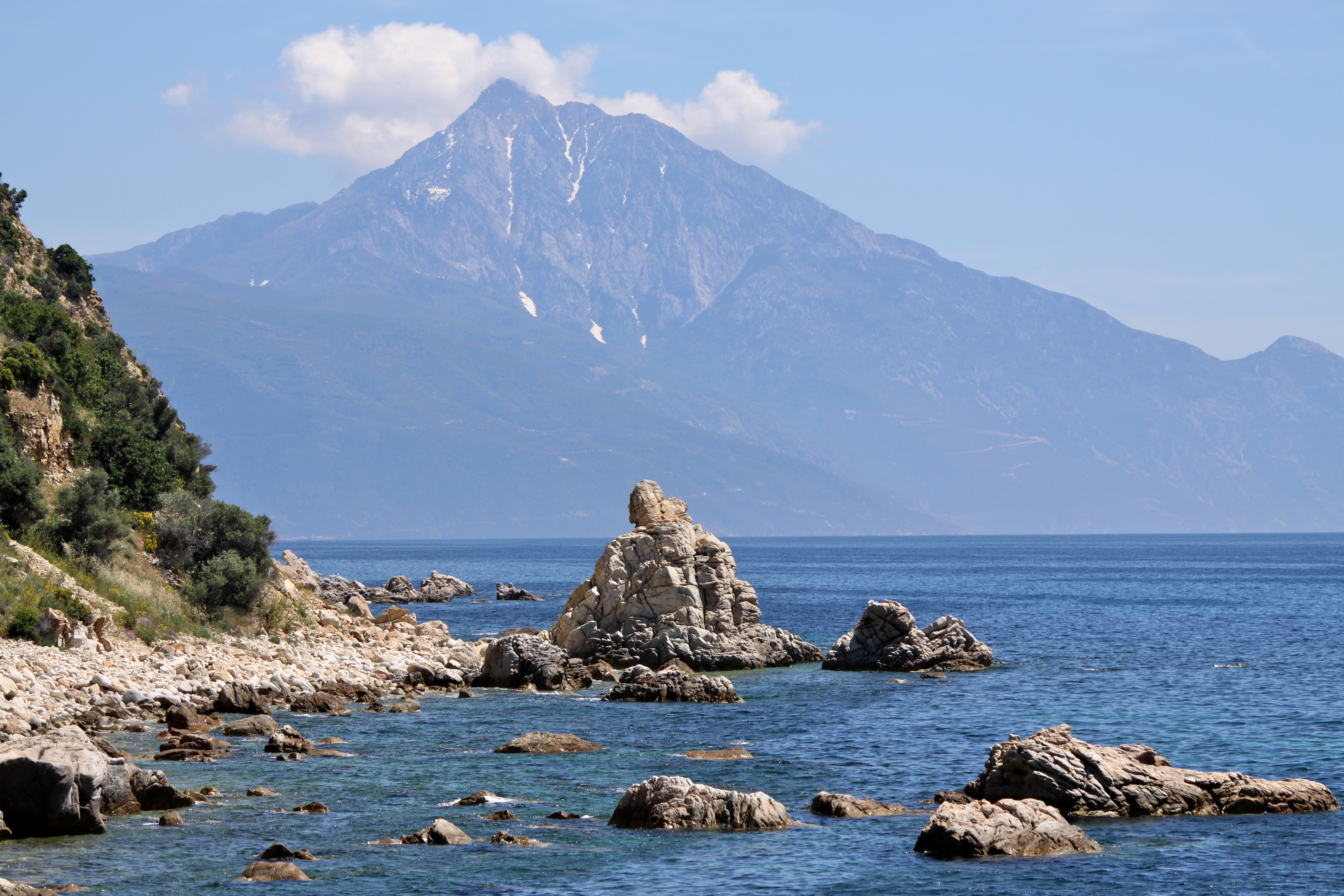 This is a photography of Natura 2000 protected area with ID GR1270003